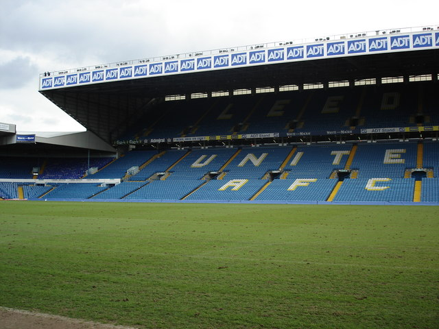 East Stand Elland Road View of East Stand at Elland Road (Leeds United FC) taken from beside player's tunnel